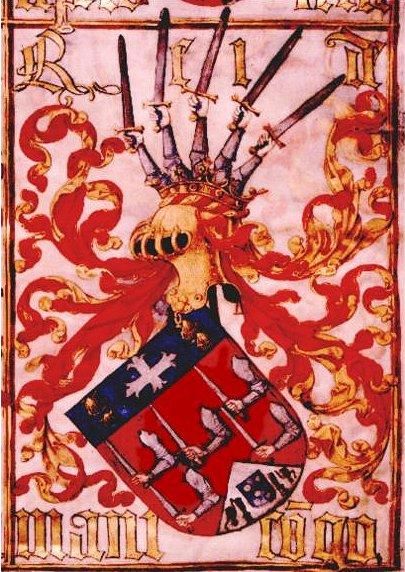 Coat of Arms of the Kingdom of Kongo issued to King Affonso I